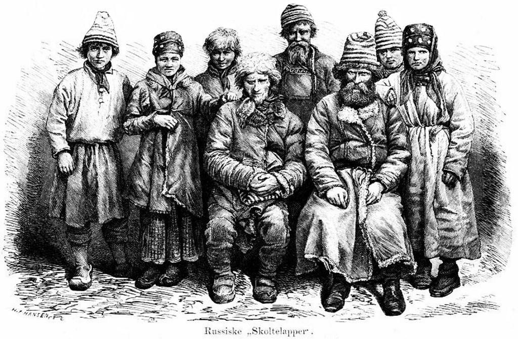 Skolt Sami people, Kola Peninsula, Russian Lapland, engraving after photo. Other related search words: Skoltsamisk, Samisk, Samiske, Samer, Skolts, Kolahalvøya, Enare or Inari, Neiden, Pasvik, Russia, Boris Gleb, Russland, Finland, Norge, Norway.